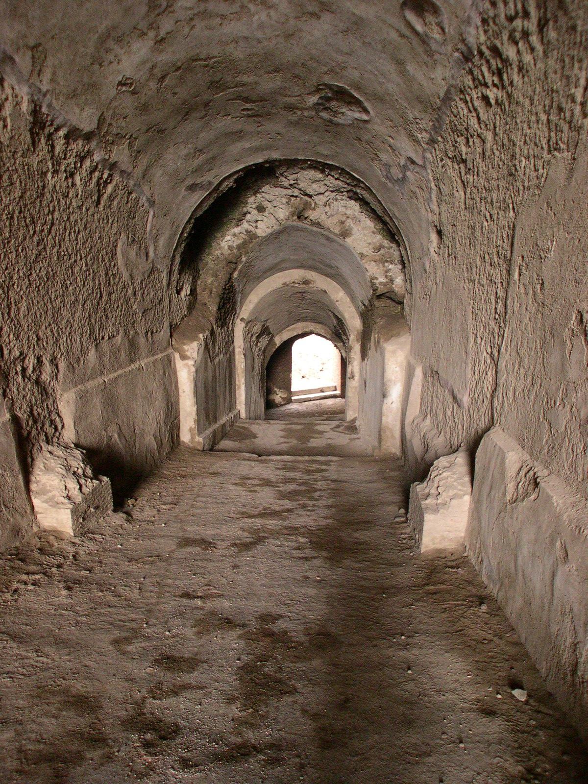 Tunnel beneath the amphitheatre in Pompeii.